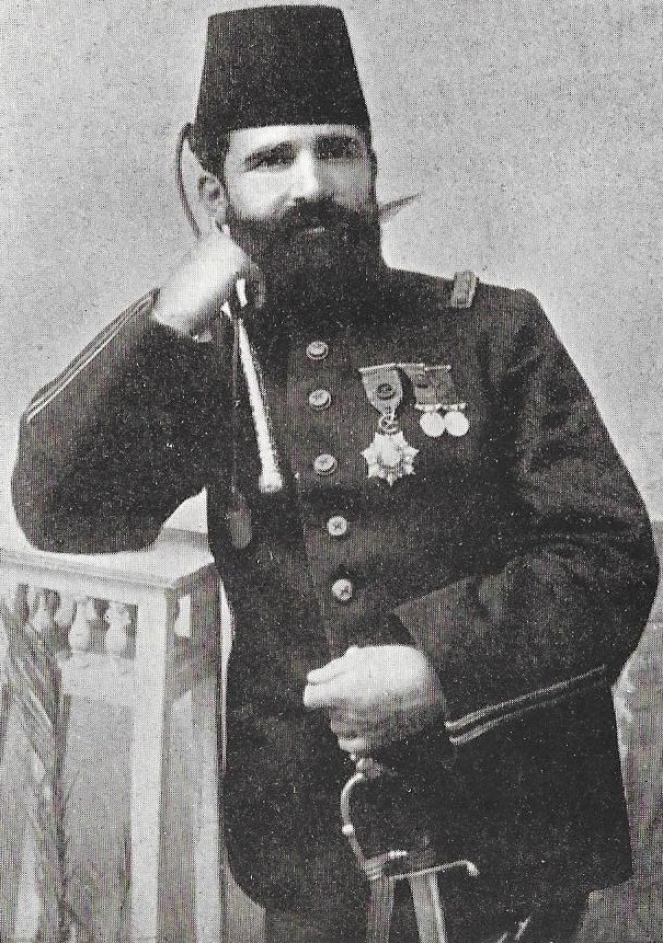 Ahmet Njazi Resnja, 1908